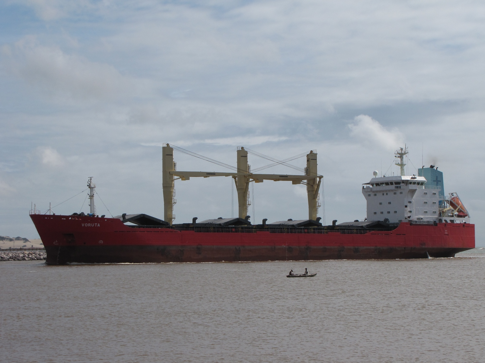 Voruta Ship